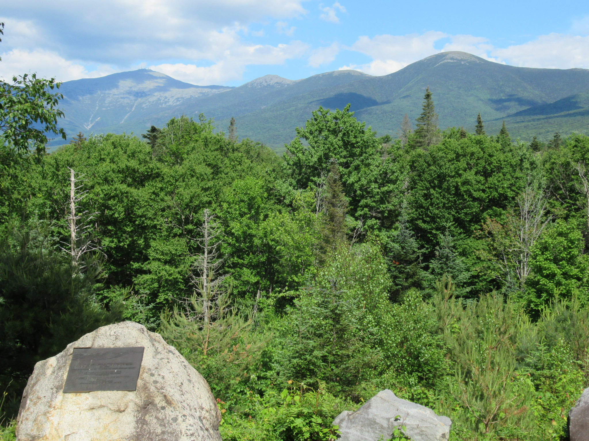 Mounts Washington, Monroe, Franklin, and Eisenhower in New Hampshire, from the Eisenhower Memorial Wayside Park